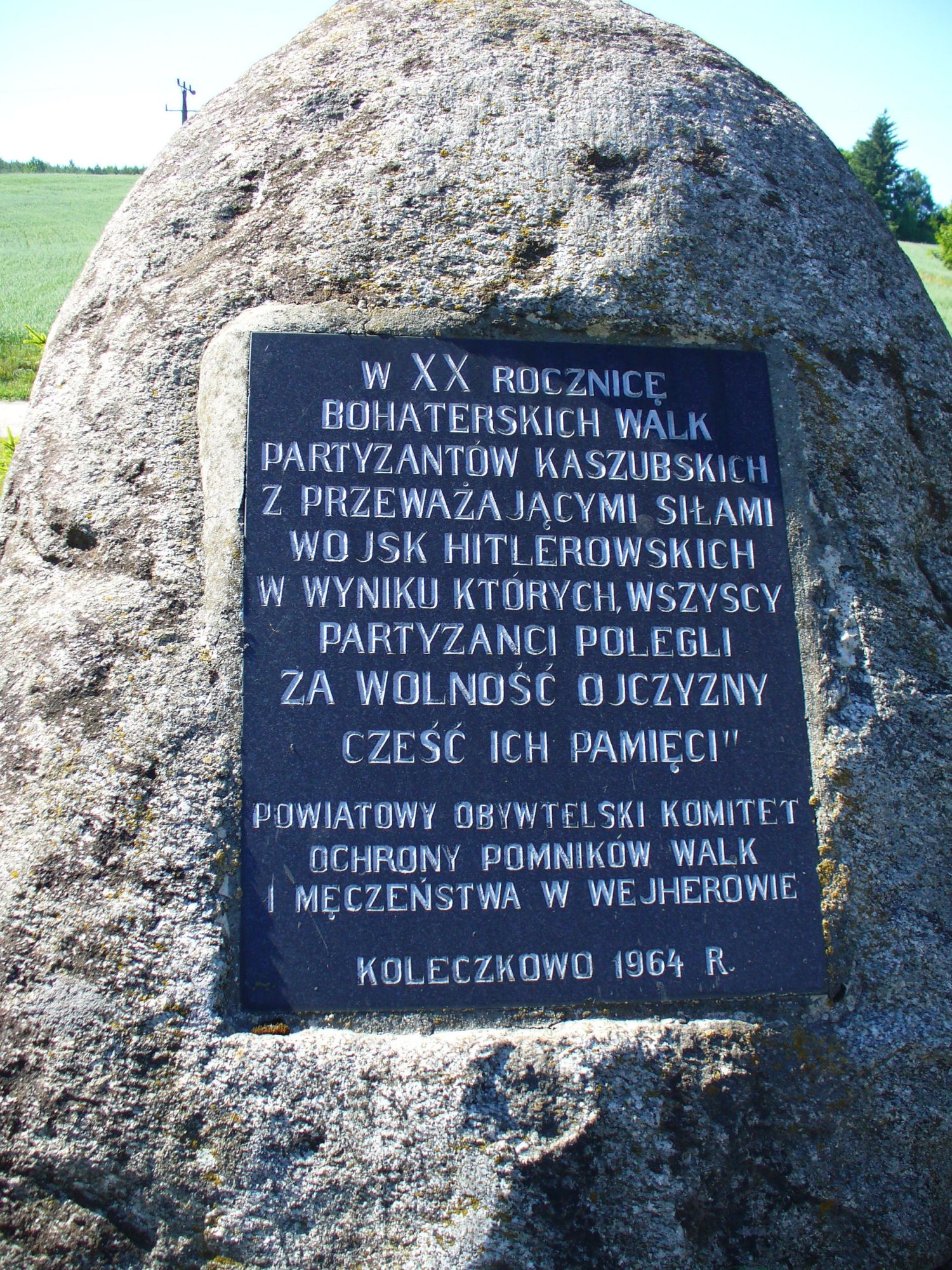 Village Koleczkowo, Poland